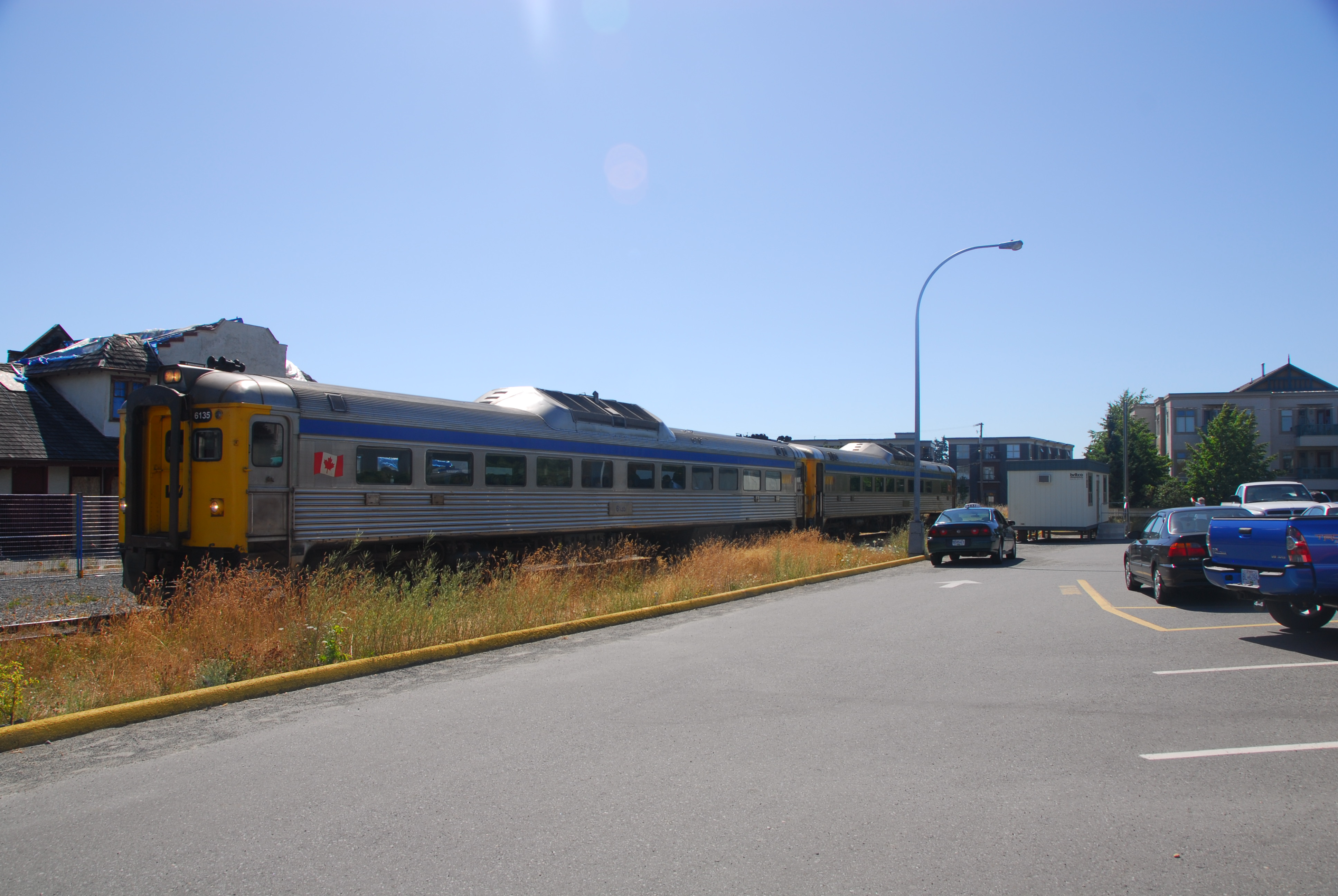 Nanaimo Station of the Southern Railway of Vancouver Island in Nanaimo, British Columbia, Canada, with a VIA Rail RDC-1 train.